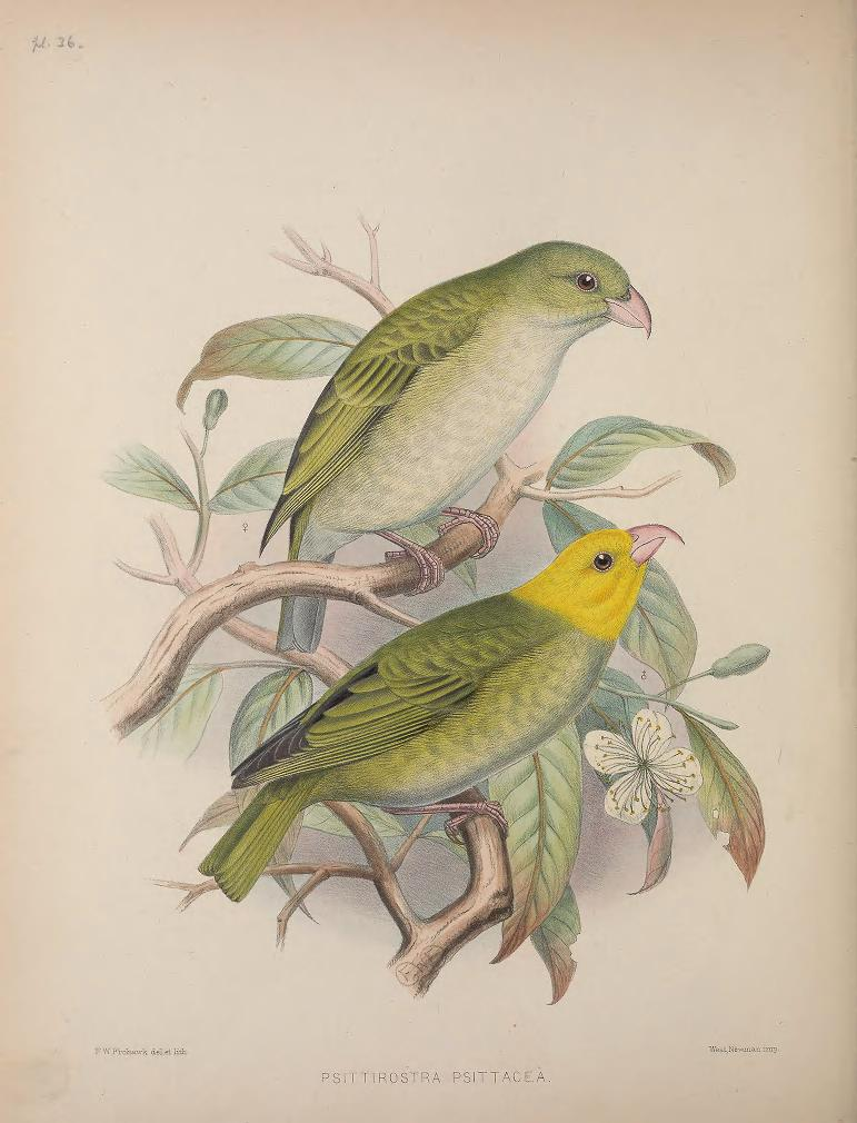 Psittirostra psittacea from The Birds of the Sandwich Islands